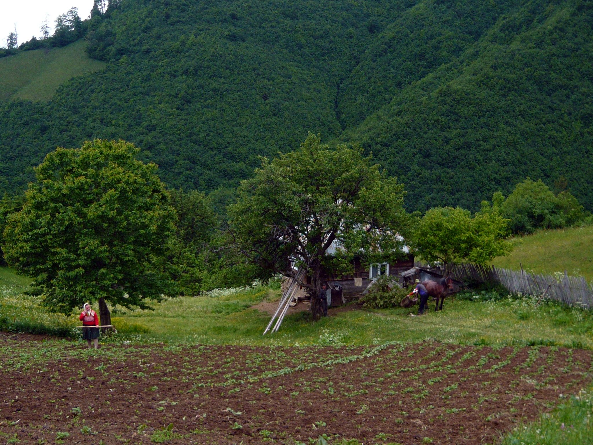 Potato field with a farmer and farm at hillfort Obcina near Poienile de Sub Munte or in the rear Valea Vinului Maramureş Mountains (Inner Eastern Carpathians) in north of Rumania / EU. In the courtyard of the farmer prepares the horse for work on the field.